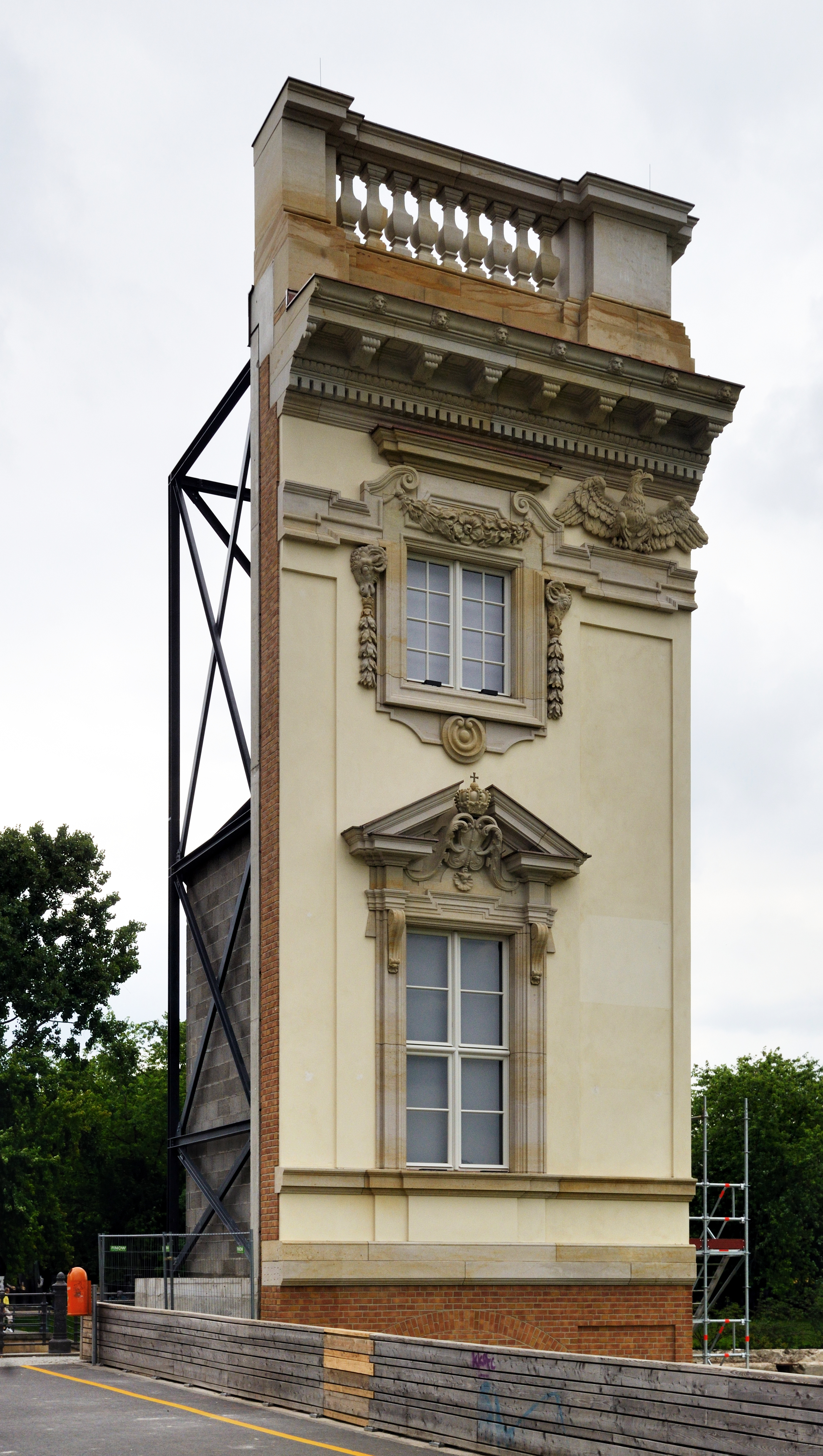 Berlin: model of the proposed front of the Stadtschloss